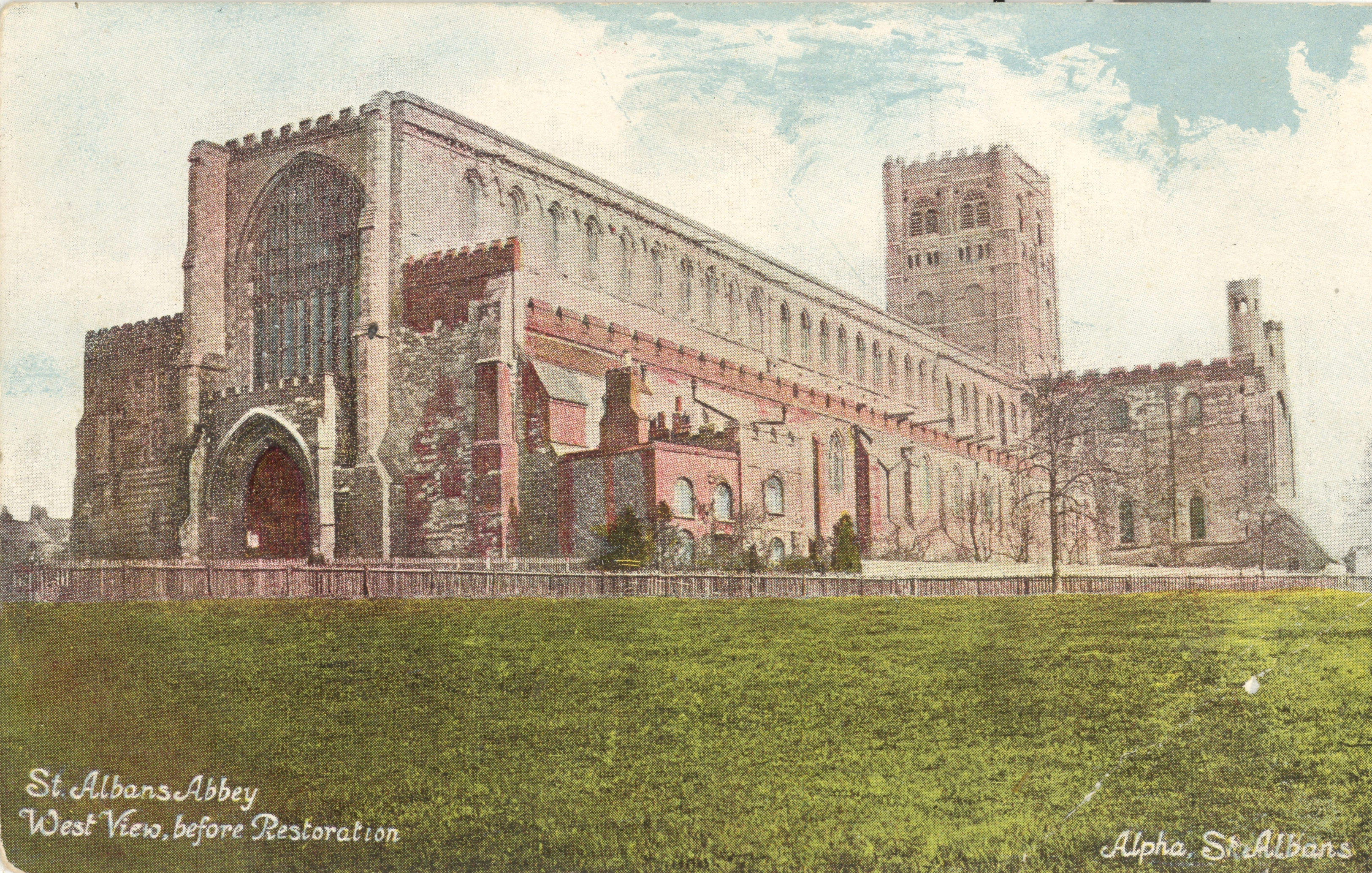 View of the West end of St Albans Abbey, St Albans, Hertfordshire, taken in about 1880 (before the restoration in the 1880s) and published as a post card in about 1905 by the Alpha Trading Company